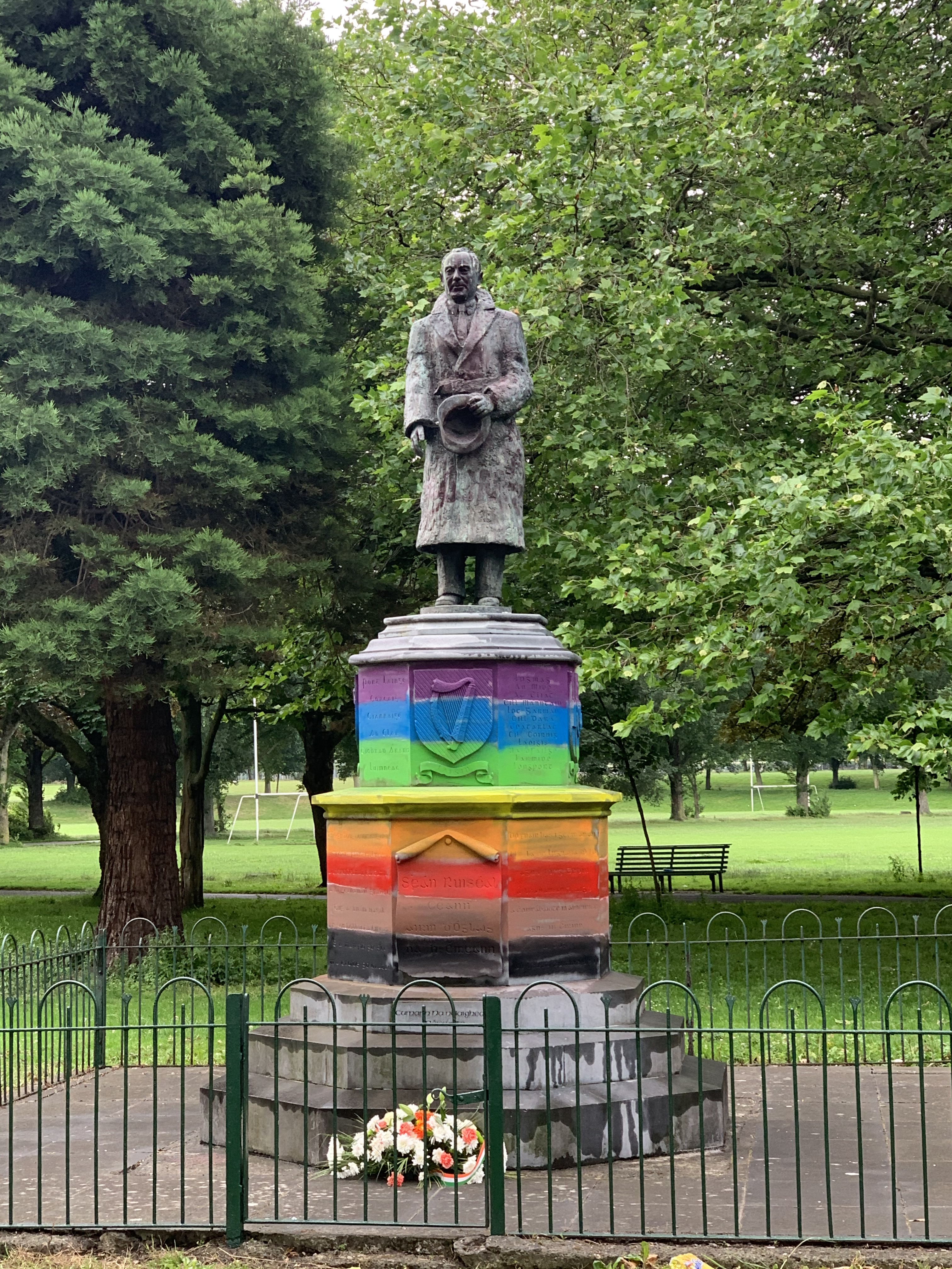 A photo of the Sean Russell statue in Fairview Park, Dublin, Ireland when it was painted with a rainbow base.